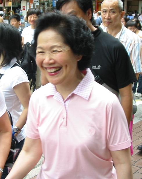 Anson Chan participates July 1 march 2007.